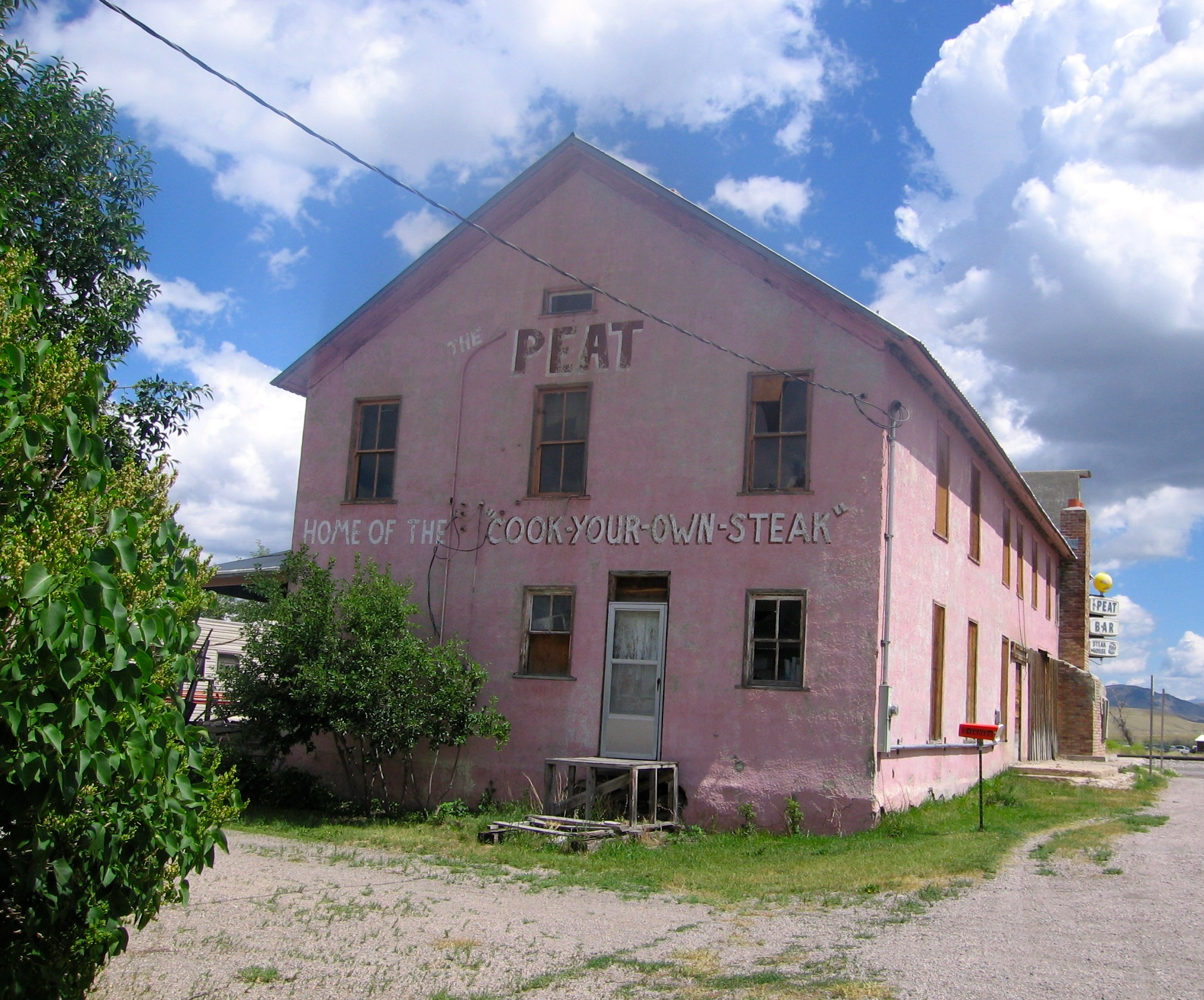 restaurant in Lima